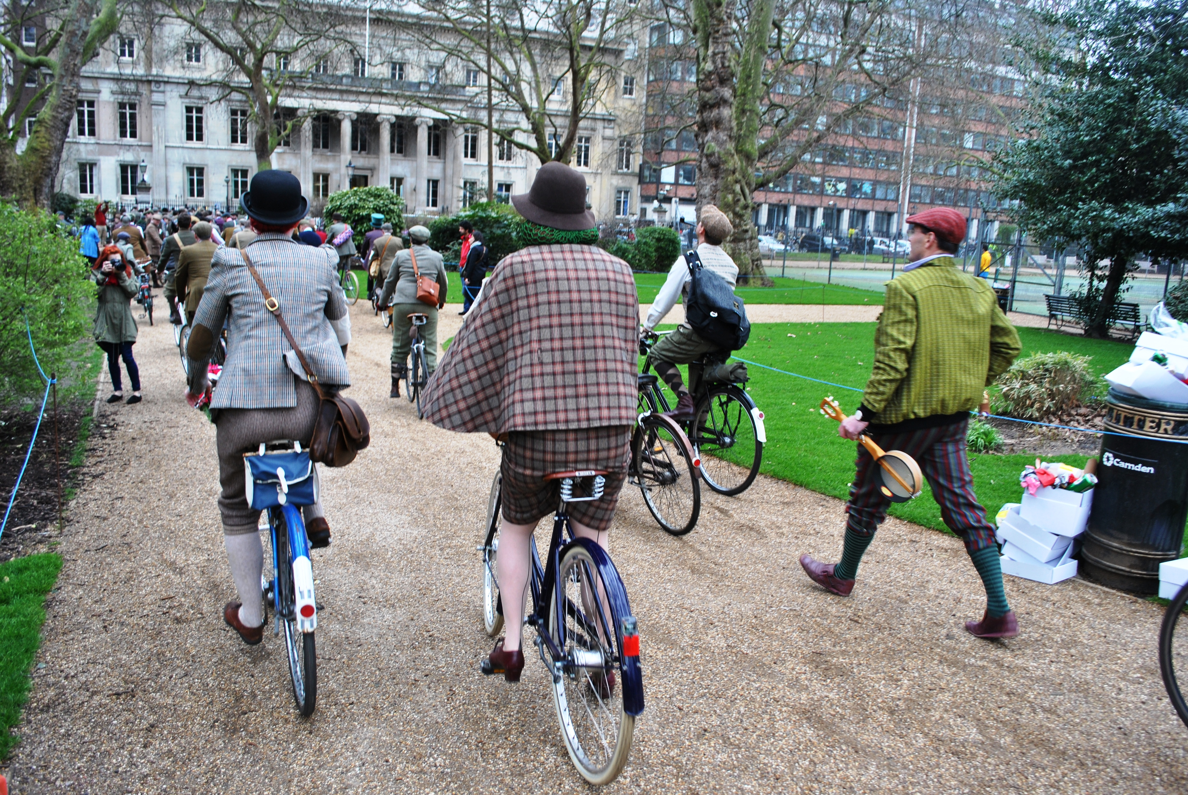 Tweed run